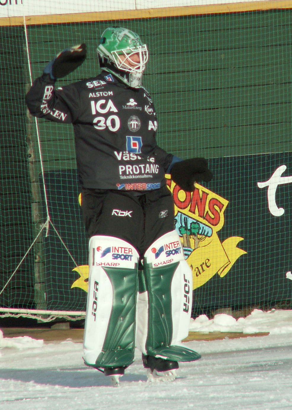 Daniel Kjörling during Bandy world cup 2007